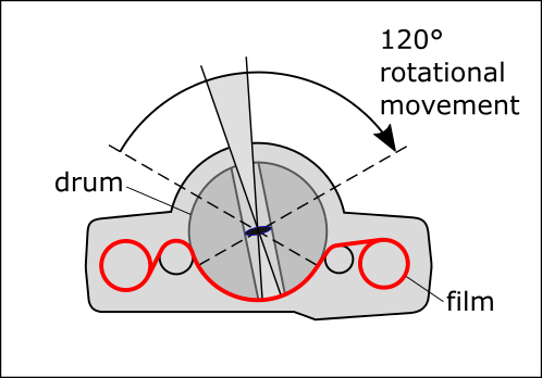 A sketch showing how the Horizon 202 swing lens camera works.